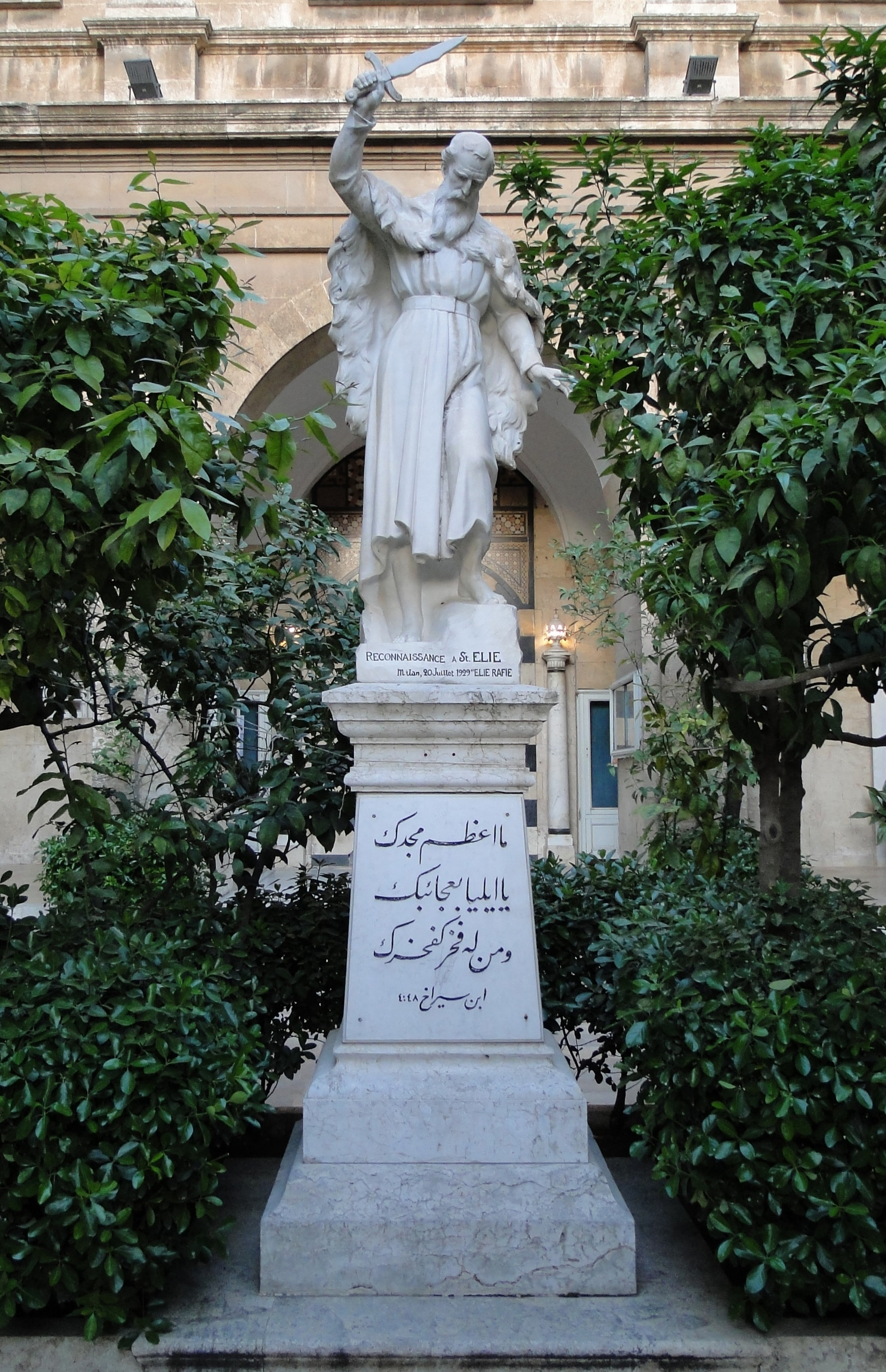 Statue of Saint Elie, Aleppo, Syria